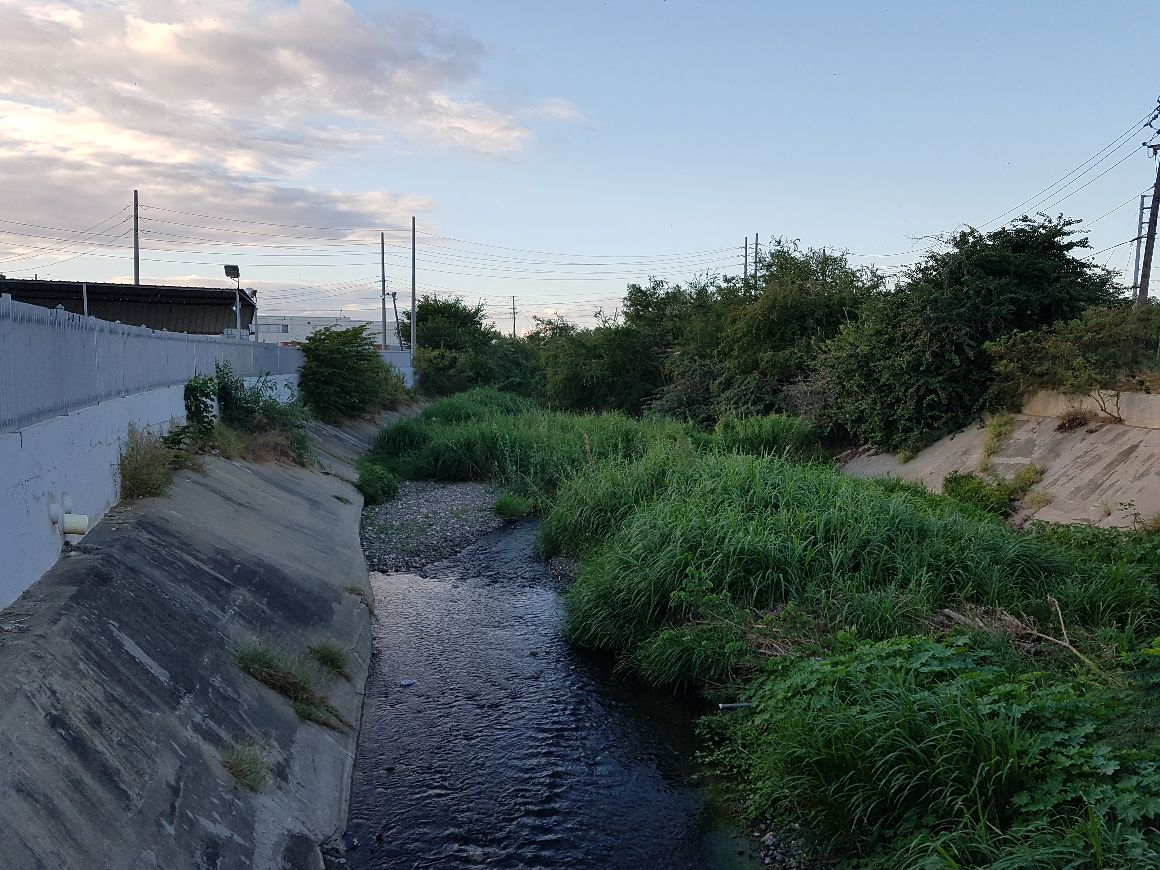 Rio Matilde, mirando hacia el sur desde la PR-2, Barrio Canas, Ponce, PR - (20190102 073354)